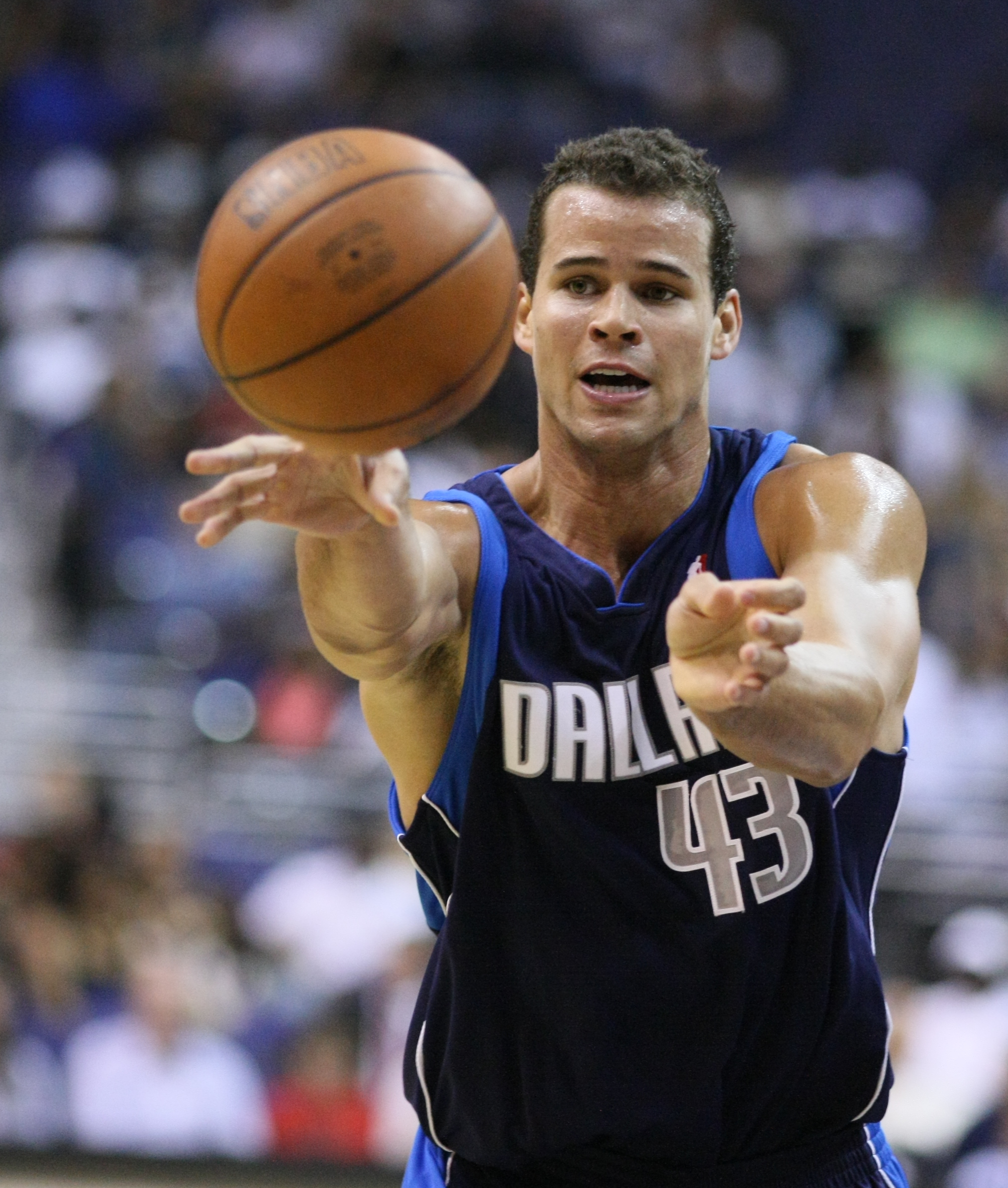 Kris Humphries playing with the Dallas Mavericks